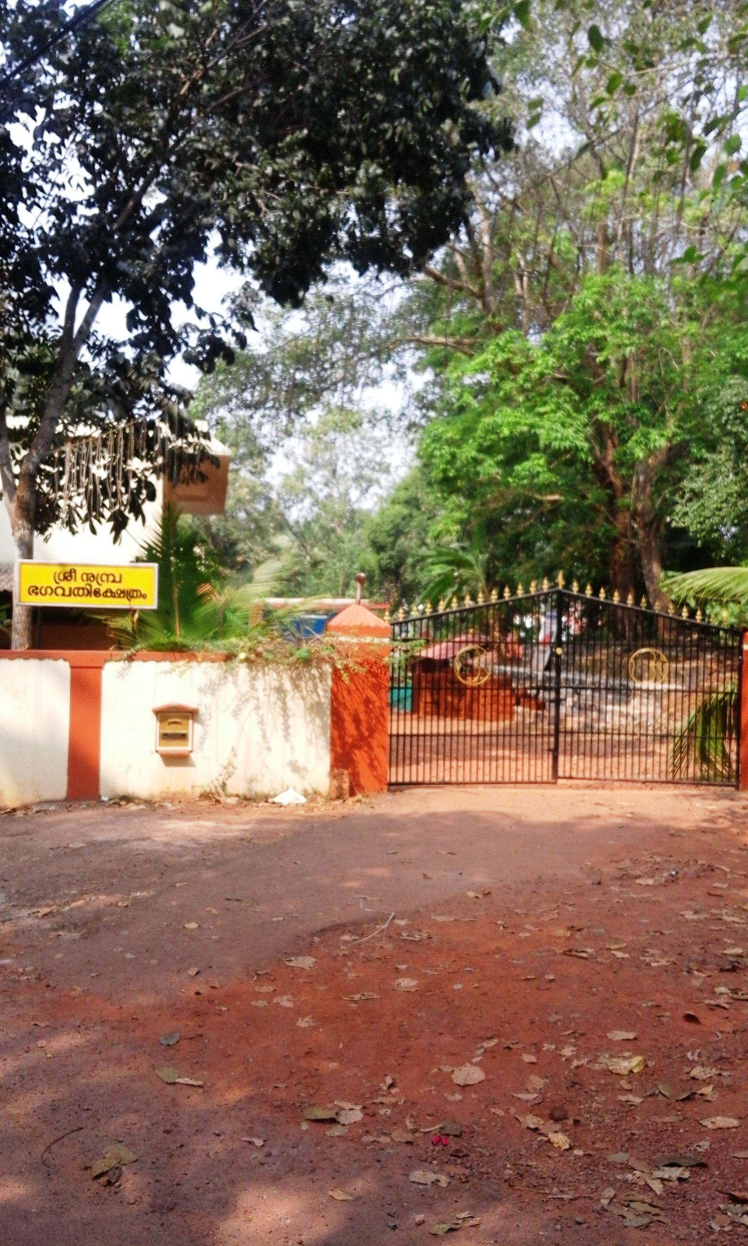 Kozhikode, Kerala province, India.